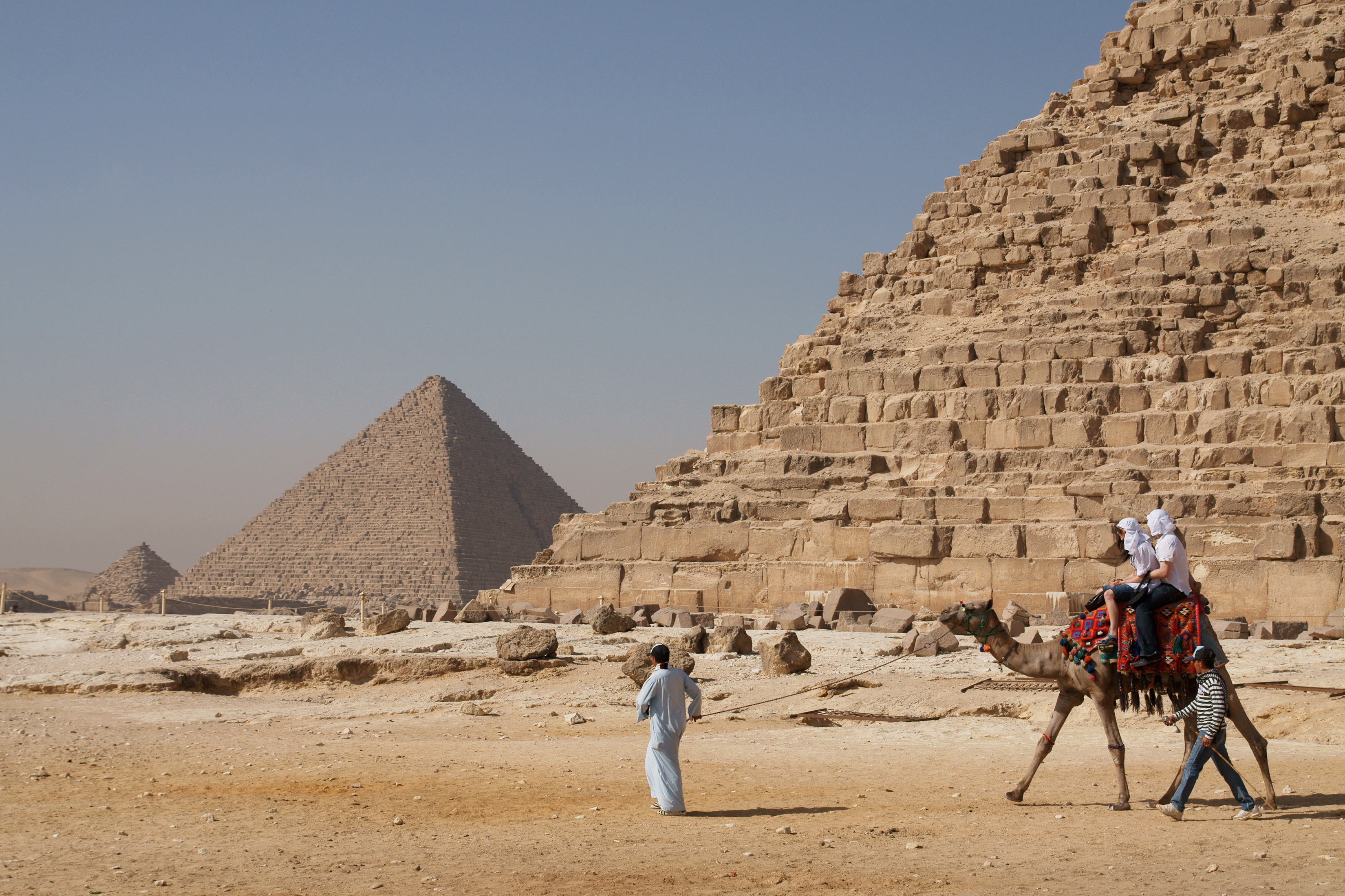 Tourists riding a dromedary or Arabian camel (Camelus dromedarius) in front of Pyramid of Khafre. The pyramid of Menkaure is on background.